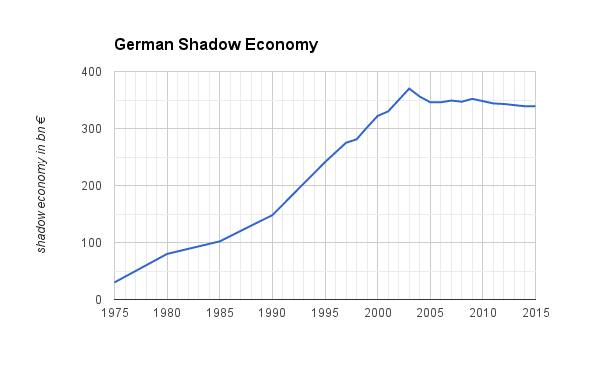 Development of the shadow economy in (West-) Germany 1975-2015. Original shadow economy data from Friedrich Schneider, University Linz. Shadow economy data 1975-1980 from power point presentation, page 2: "Umfang der Schattenwirtschaft in Deutschland in Mrd. Euro" . Shadow economy data 1995-2015 from "Entwicklung des Umfangs der Schattenwirtschaft seit 1995"